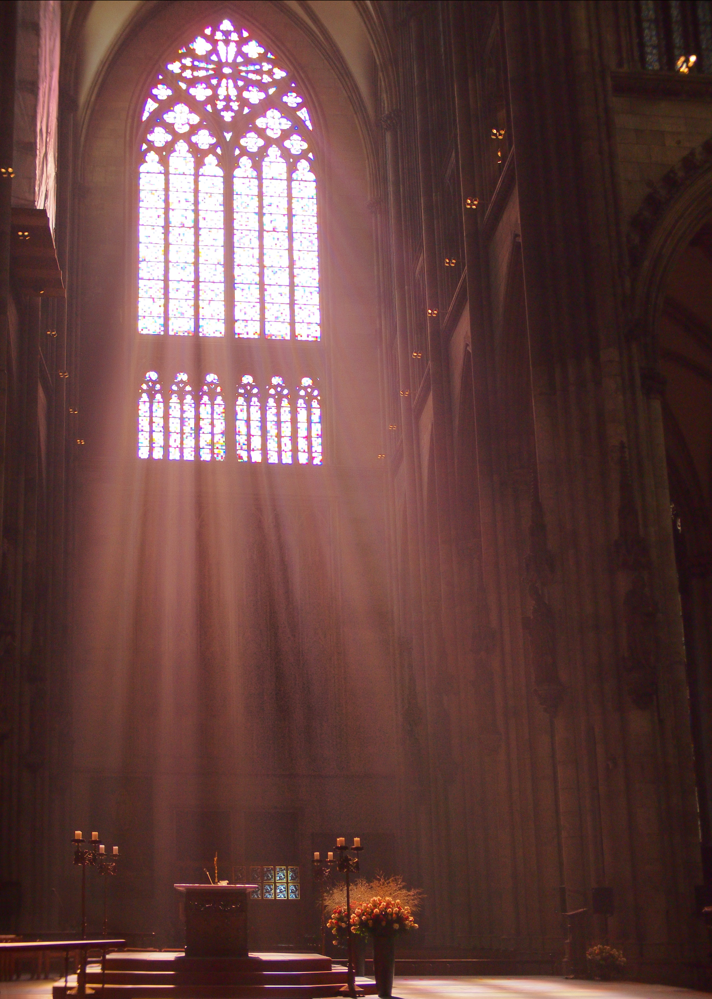 Kölner Dom, Gerhard Richter's 'Symphony of Light'. Like many others the modern stained glass window seemed out of place to me, that is till the sun shines through it at a certain angle.This is a photograph of an architectural monument.